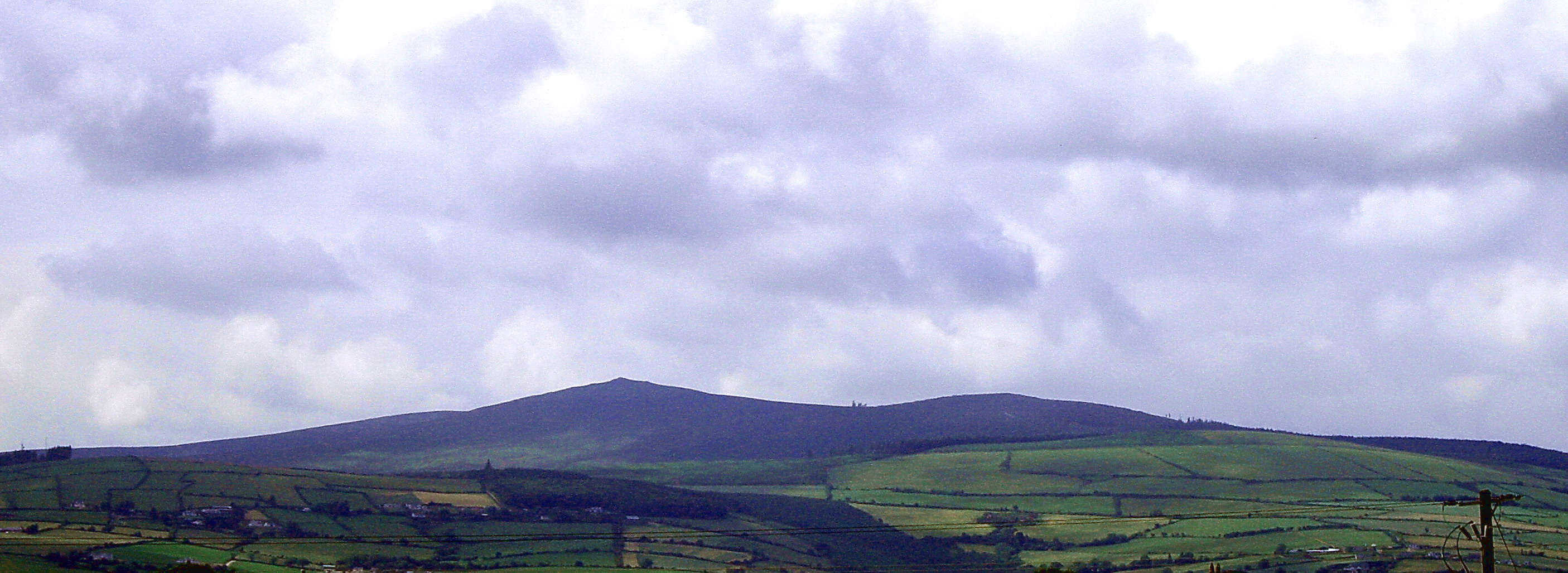 Croughan Mountain on the Wicklow/Wexford border in South Leinster, Ireland